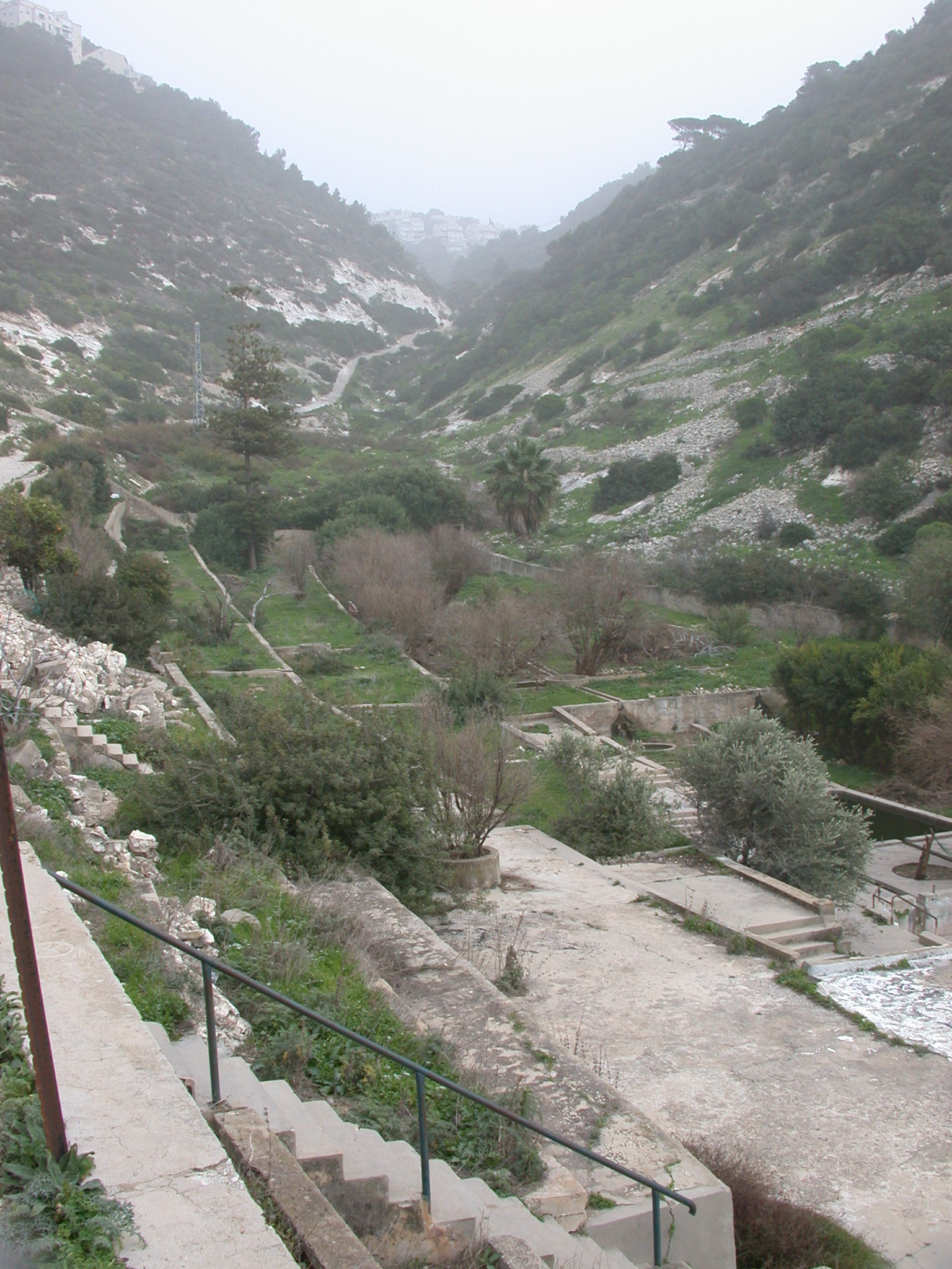 Nahal Siah, Haifa, Israel, eastward view. An abandoned fruit tree garden, built by the Arab family Hyatt, can be seen at the bottom.